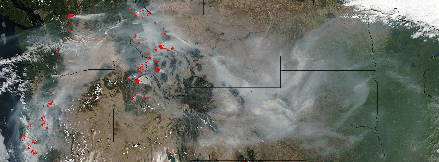 MODIS satellite imagery composite with fires detected by infrared sensor